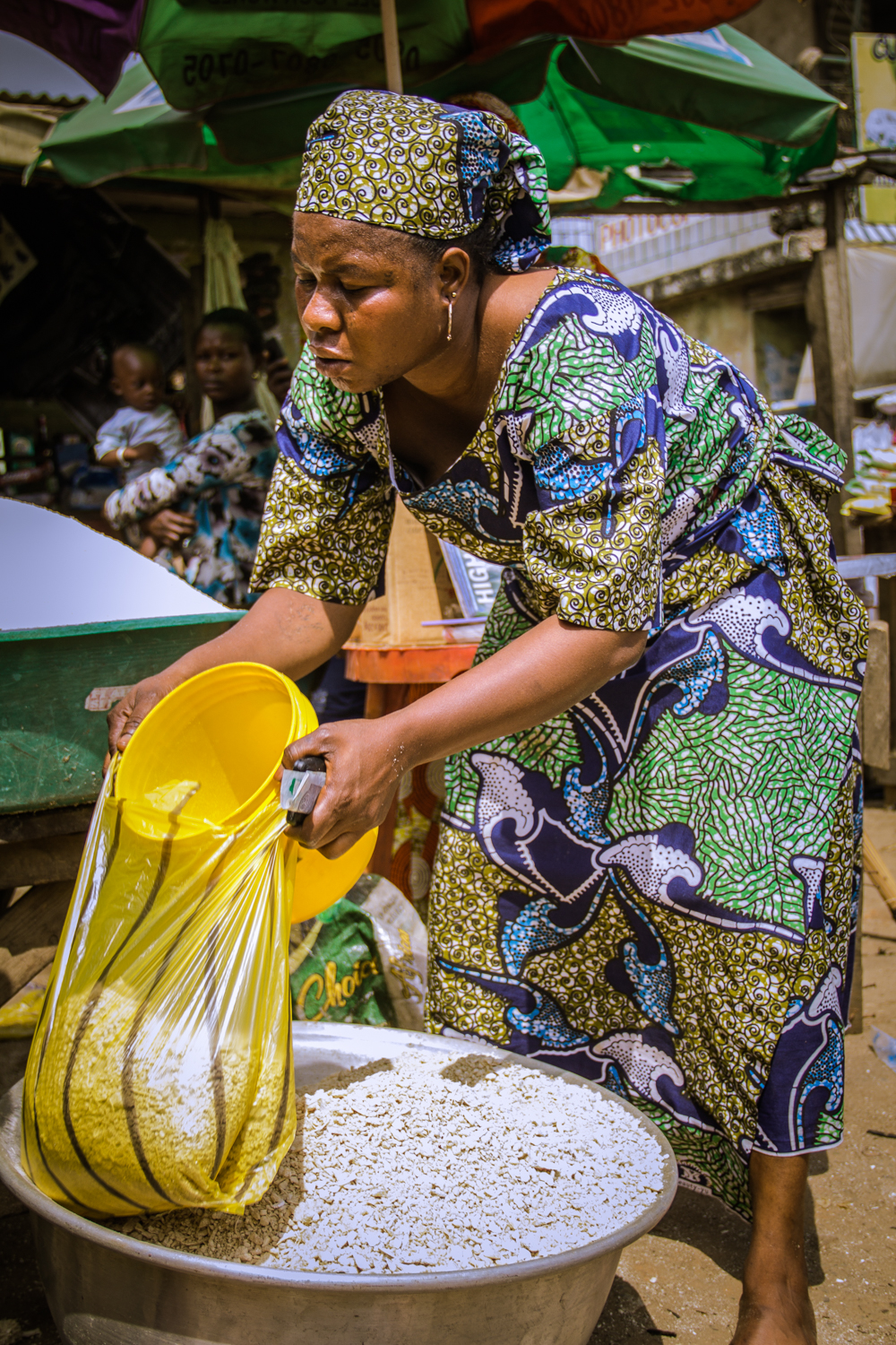 Garri is the most popular and cheapest food in Nigeria and some other African Countries . The woman in this photo is selling large Grains of Cassava to a buyer ,the grains will be grounded and turned into garri